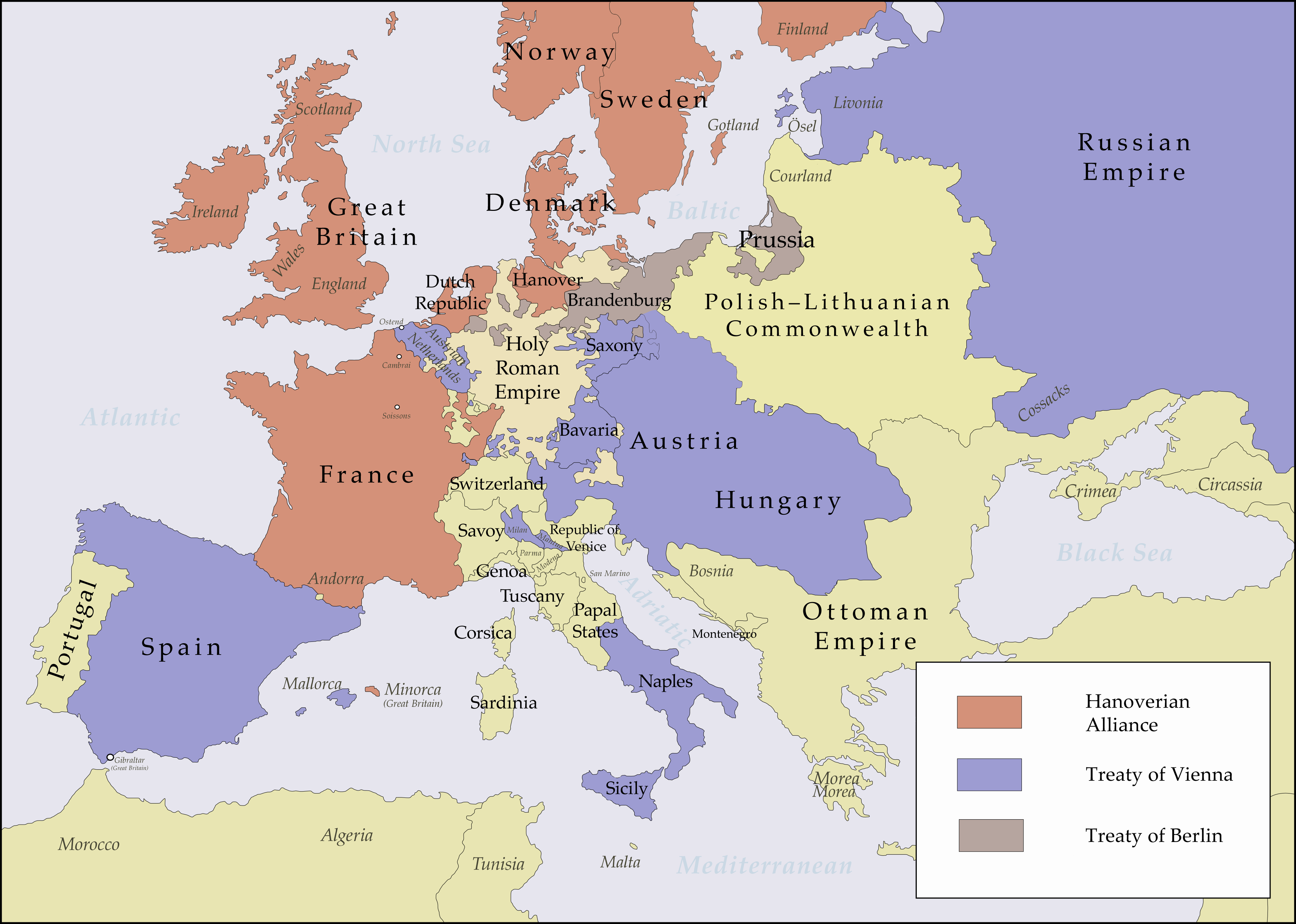 Coalitions in Europe between 1725 and 1730. Signatories of the Treaty of Vienna (April 30, 1725) in blue and signatories of the Treaty of Hanover (September 3, 1725) in red. Prussia, in brown, first joined the Hanoverian Alliance, but later changed sides after the Treaty of Berlin (December 23, 1728).